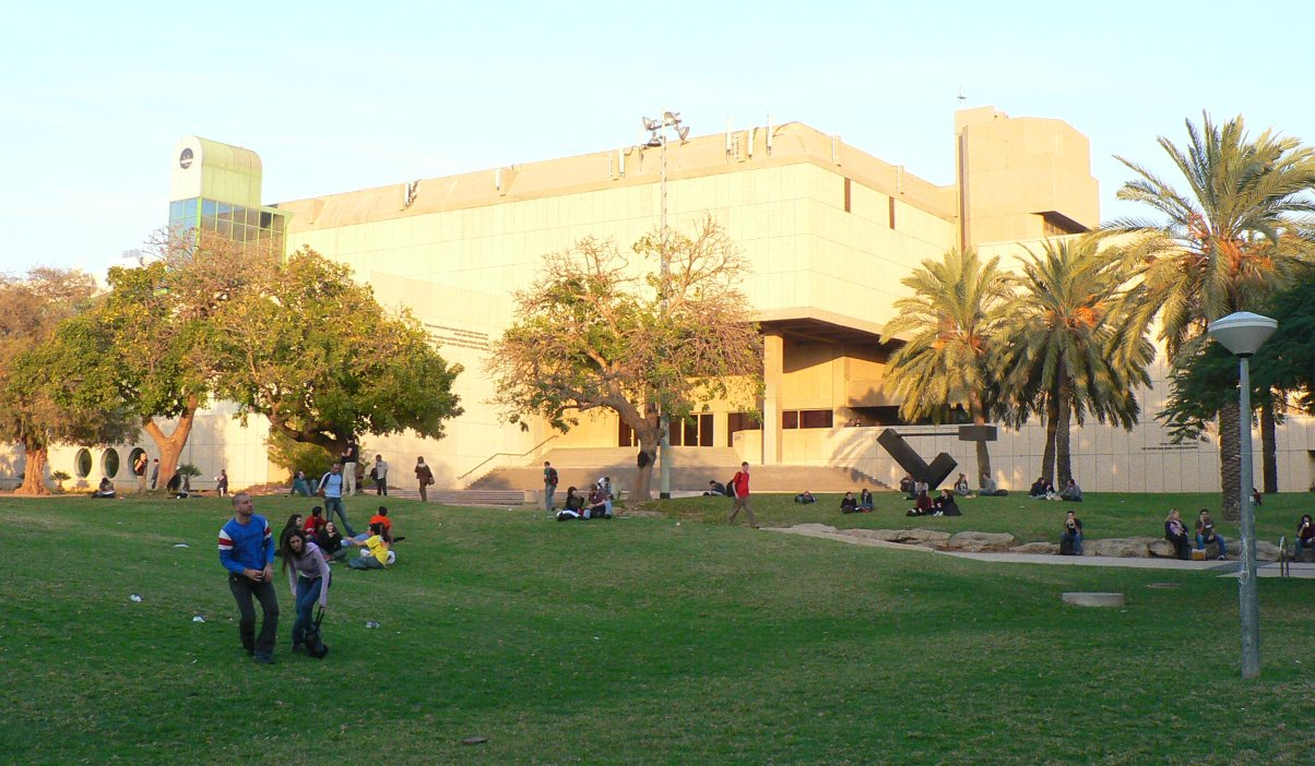 Beit Hatfutzot בית התפוצות The Museum for Jewish Diaspora, Tel Aviv University